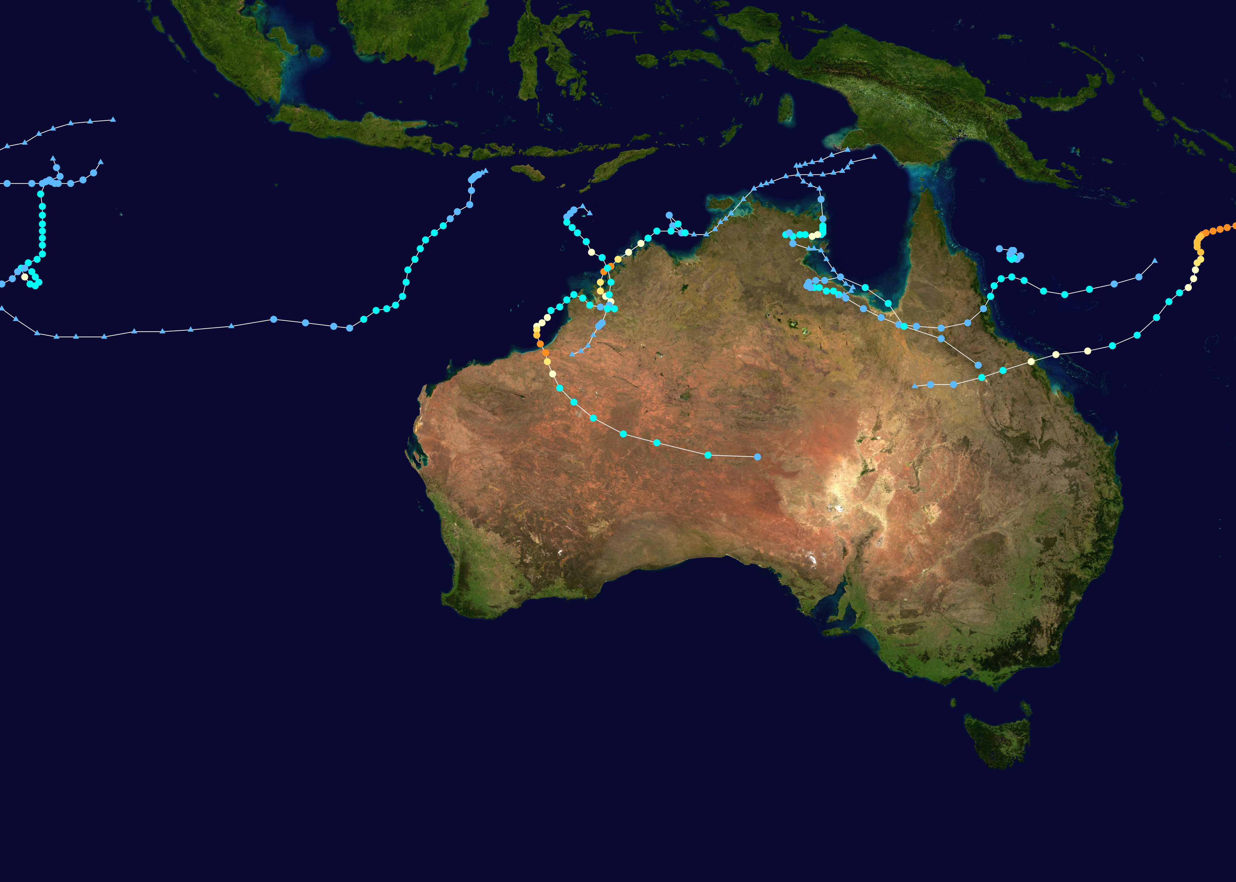 This map shows the tracks of all tropical cyclones in the 2009-10 Australian region cyclone season. The points show the location of each storm at 6-hour intervals. The colour represents the storm's maximum sustained wind speeds as classified in the Saffir-Simpson Hurricane Scale (see below), and the shape of the data points represent the type of the storm. Saffir–Simpson scale Tropical depression≤38 mph≤62 km/h Category 3111–129 mph178–208 km/h Tropical storm39–73 mph63–118 km/h Category 4130–156 mph209–251 km/h Category 174–95 mph119–153 km/h Category 5≥157 mph≥252 km/h Category 296–110 mph154–177 km/h Unknown Storm type Tropical cyclone Subtropical cyclone Extratropical cyclone / Remnant low / Tropical disturbance / Monsoon depression